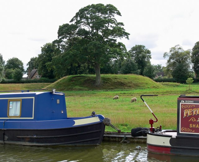 Shackerstone: Motte & Bailey The remains of a medieval motte, located between the village of Shackerstone and the Ashby Canal.